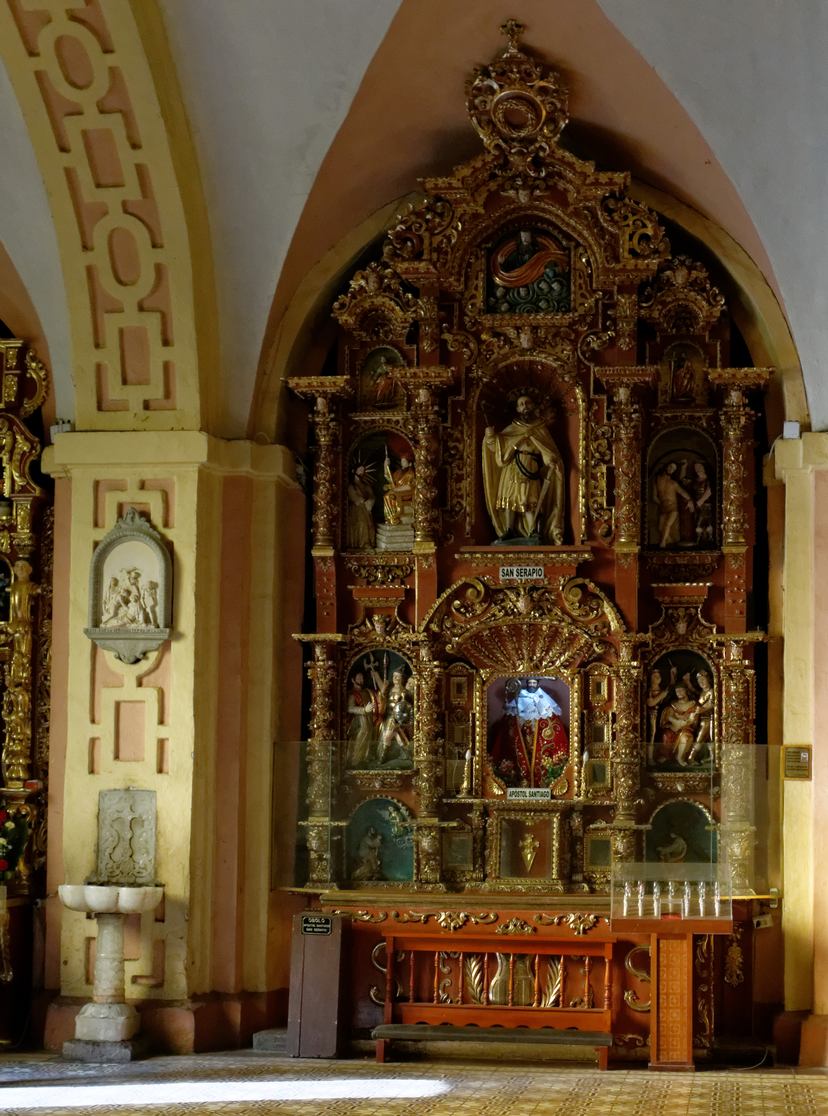 Basilica of Nuestra Señora de la Merced